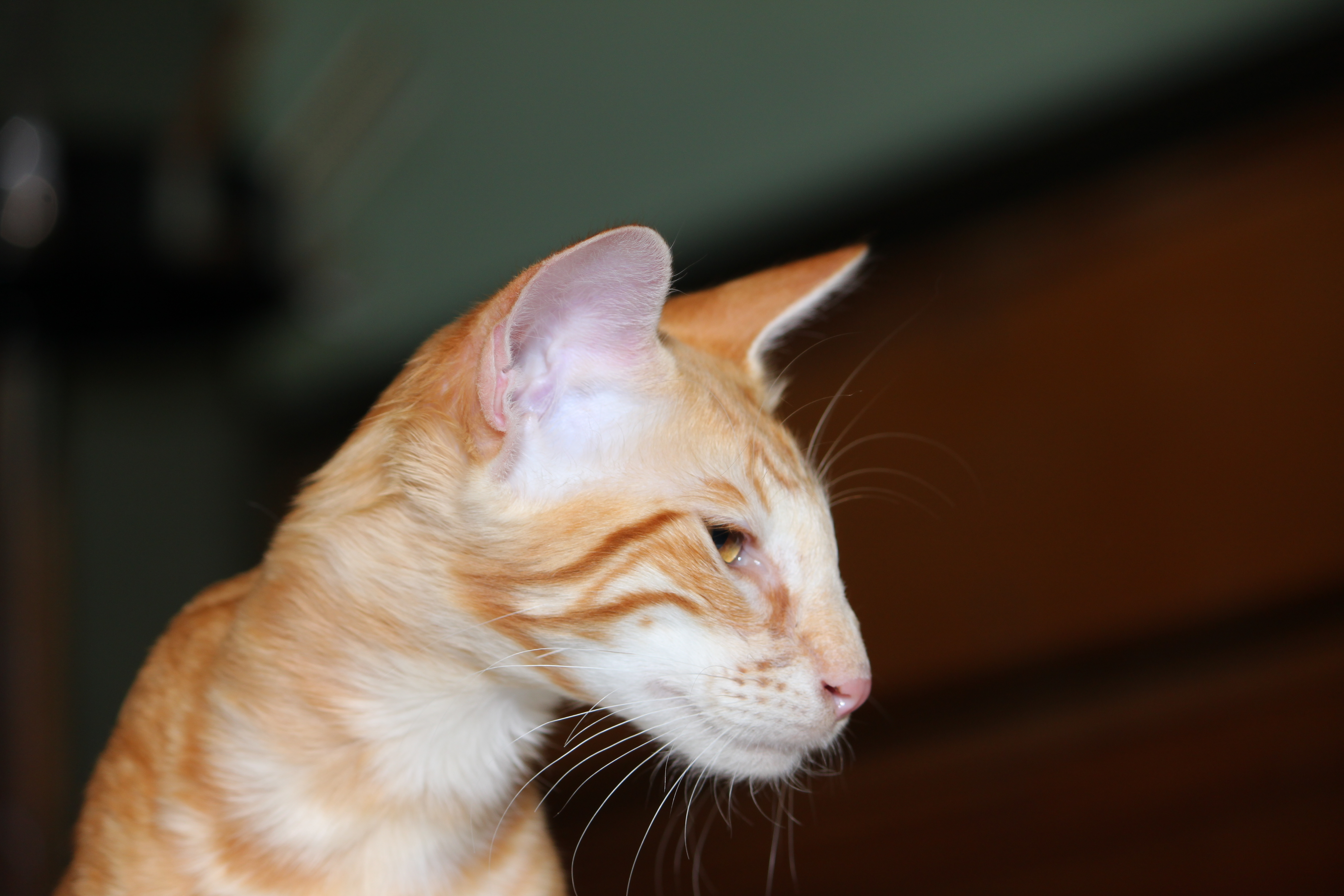 Oriental Longhair (Javanese, Mandarin), Red Classic Tabby. Name: Firefly vom Honigtöpfchen